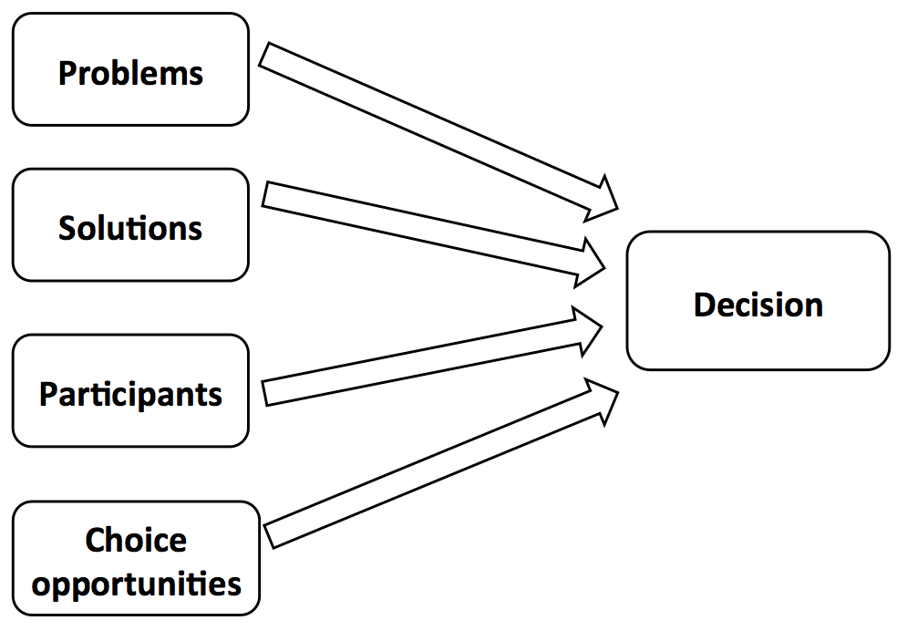 flows of decision streams